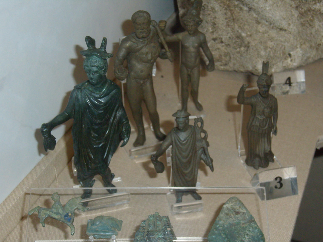 Bronze figures found in the Roman temple of Lamyatt Beacon, now Taunton Museum